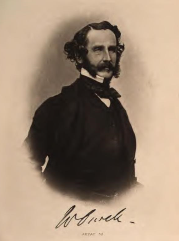 Portrait and signature of William Cotton Oswell (27 April 1818 – 1 May 1893), an English explorer and hunter, and a close friend of David Livingstone.